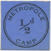 A 1/2 d. "coin" for use within Metropole Internment Camp in Douglas, Isle of Man, during World War II.